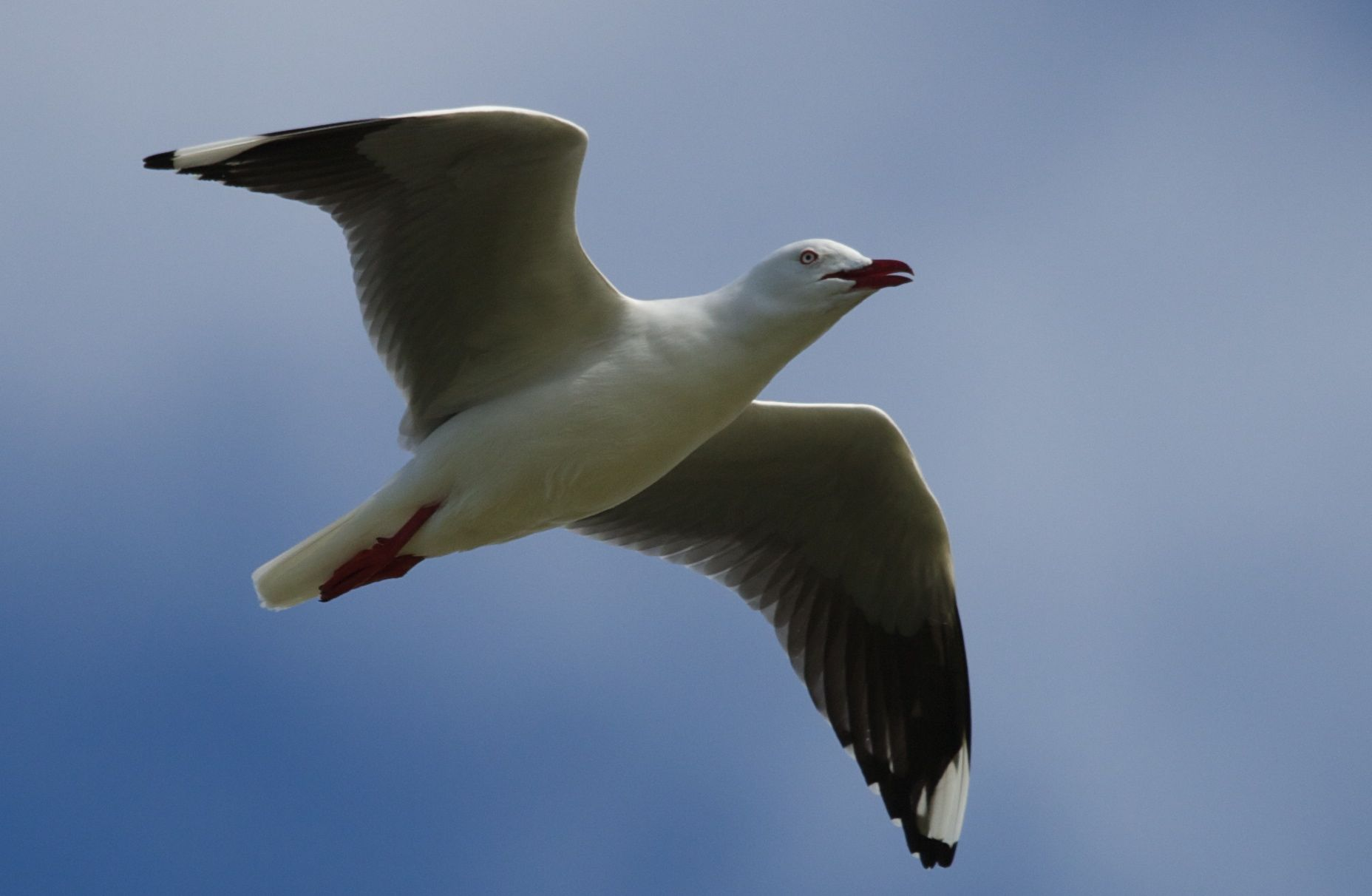 Silver Gull Chroicocephalus novaehollandiae Woolongong, NSW, Australia